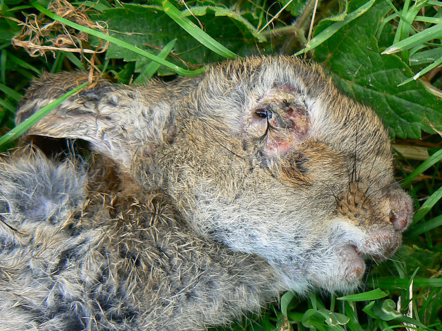 Dead rabbit close-up, near Cuckoo's Knob. For some information on the cause of the demise of this young rabbit please see the description of this image 1326830